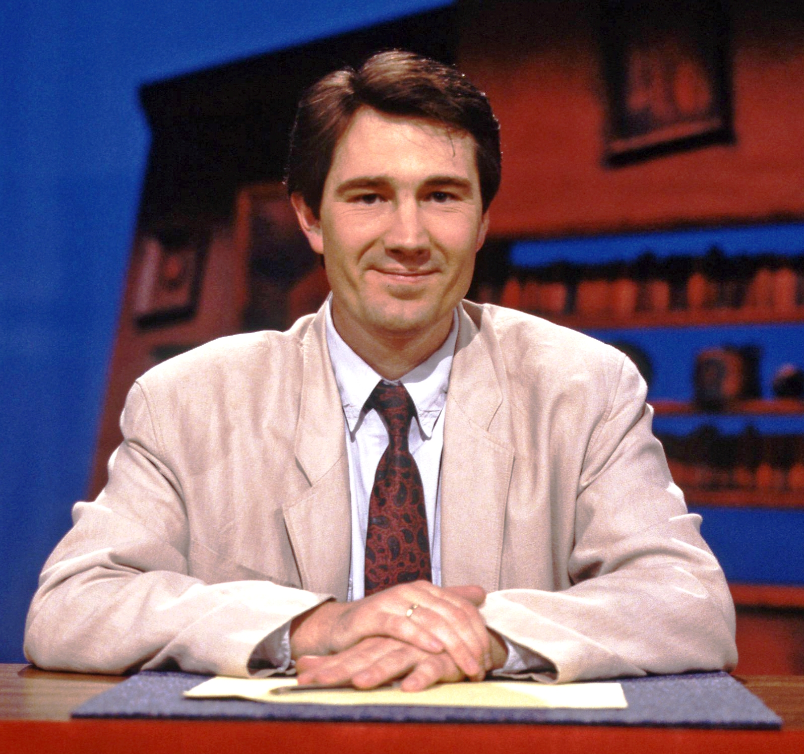 Geoffrey Perkins hosting the Channel 4 panel game Don't Quote Me, made by Open Media in 1990